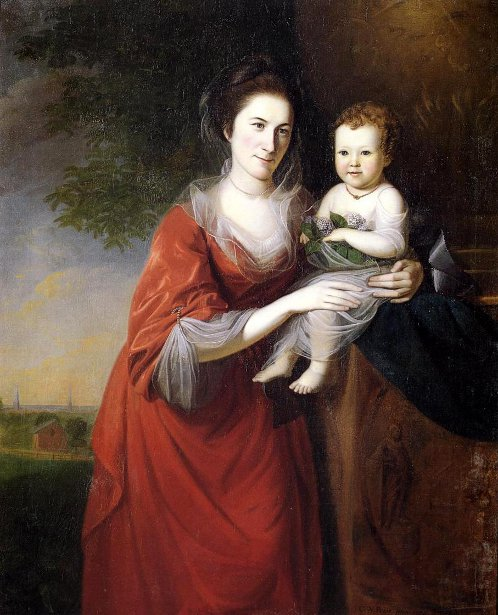 Title:Mrs. John Dickinson (Mary Norris) and Daughter, Sallie Norris Dickinson. Author/Artist:Peale, Charles Willson, 1741-1827 Creation Date:1773 Description:Graphic reproduction(s) with documentation of a painting. 49 x 39 in. oil on canvas. Provenance:A. Sidney Logan, Philadelphia, Pennsylvania, grandnephew of Sallie Norris Dickinson; his bequest in 1927 to the Historical Society of Pennsylvania, Philadelphia (the date of the Logan bequest is February 23, 1926). Current Repository:Historical Society of Pennsylvania, Philadelphia, Pennsylvania, United States, public.